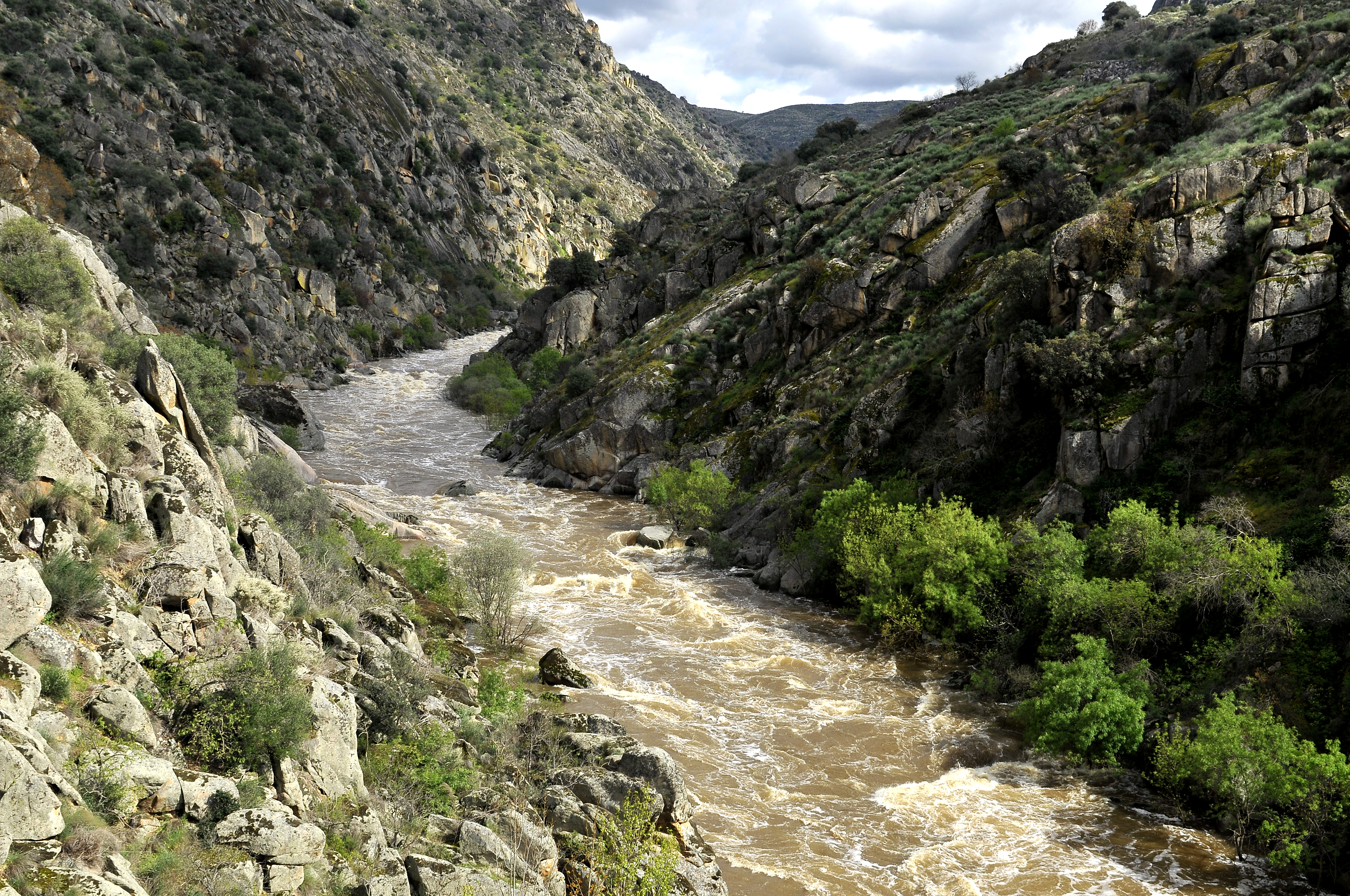 Huebra River canyon, upstream its mouth on Douro River, after a storm. Saucelle, Salamanca, Castile and León, Spain